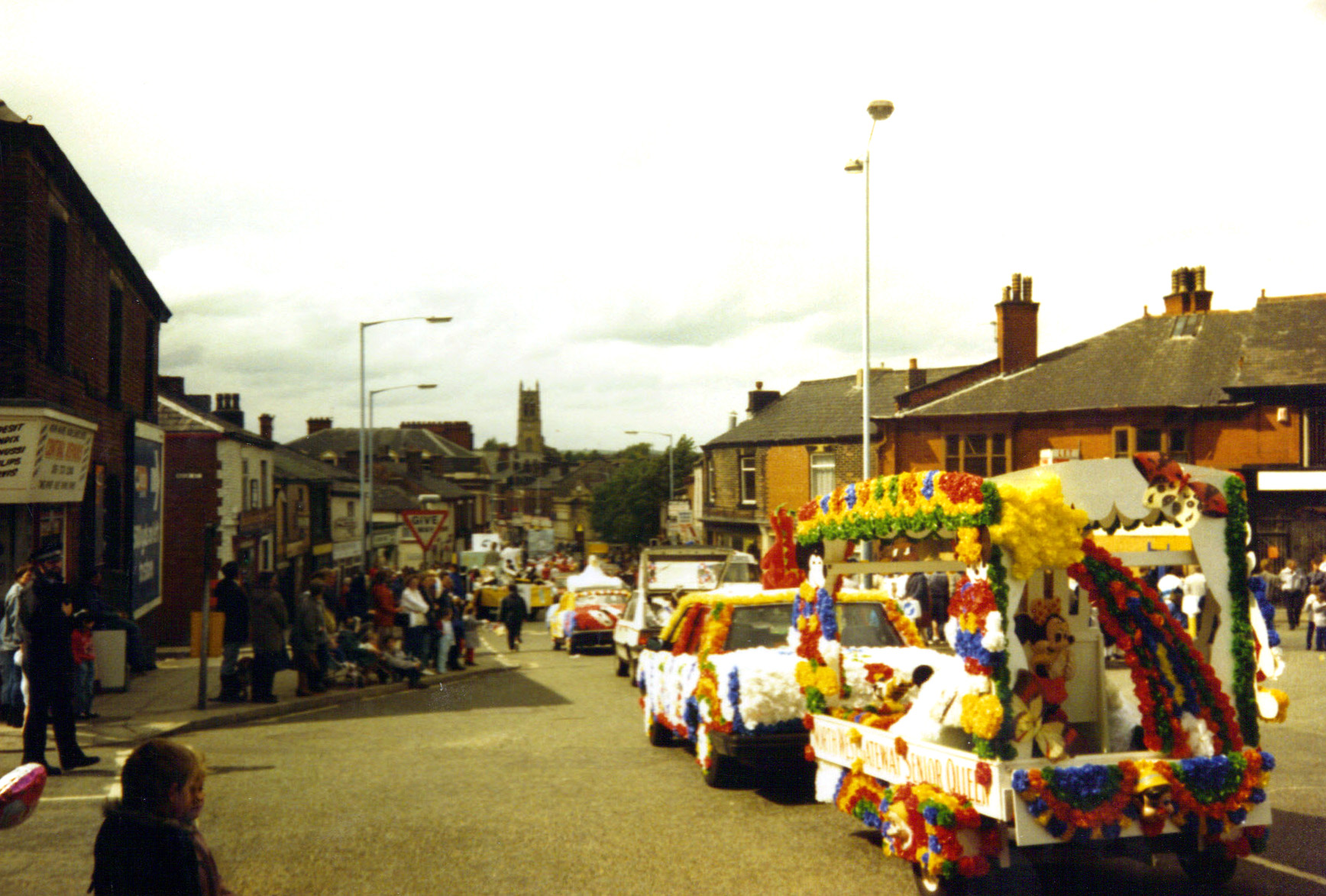 Radcliffe Carnival passes through the town at the bottom of Radcliffe New Road. The image is taken from Stand Lane.